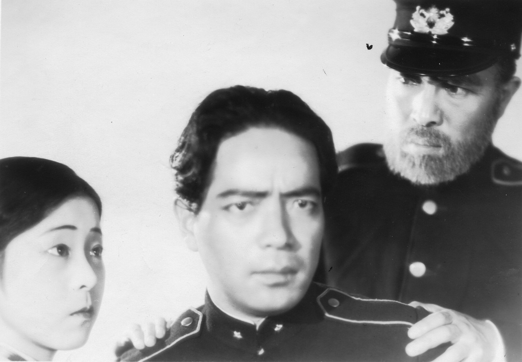 Shizuko Mori, Isamu Kosugi and Taisuke Matsumoto in Keisatsukan (警察官) directed by Tomu Uchida - 1933